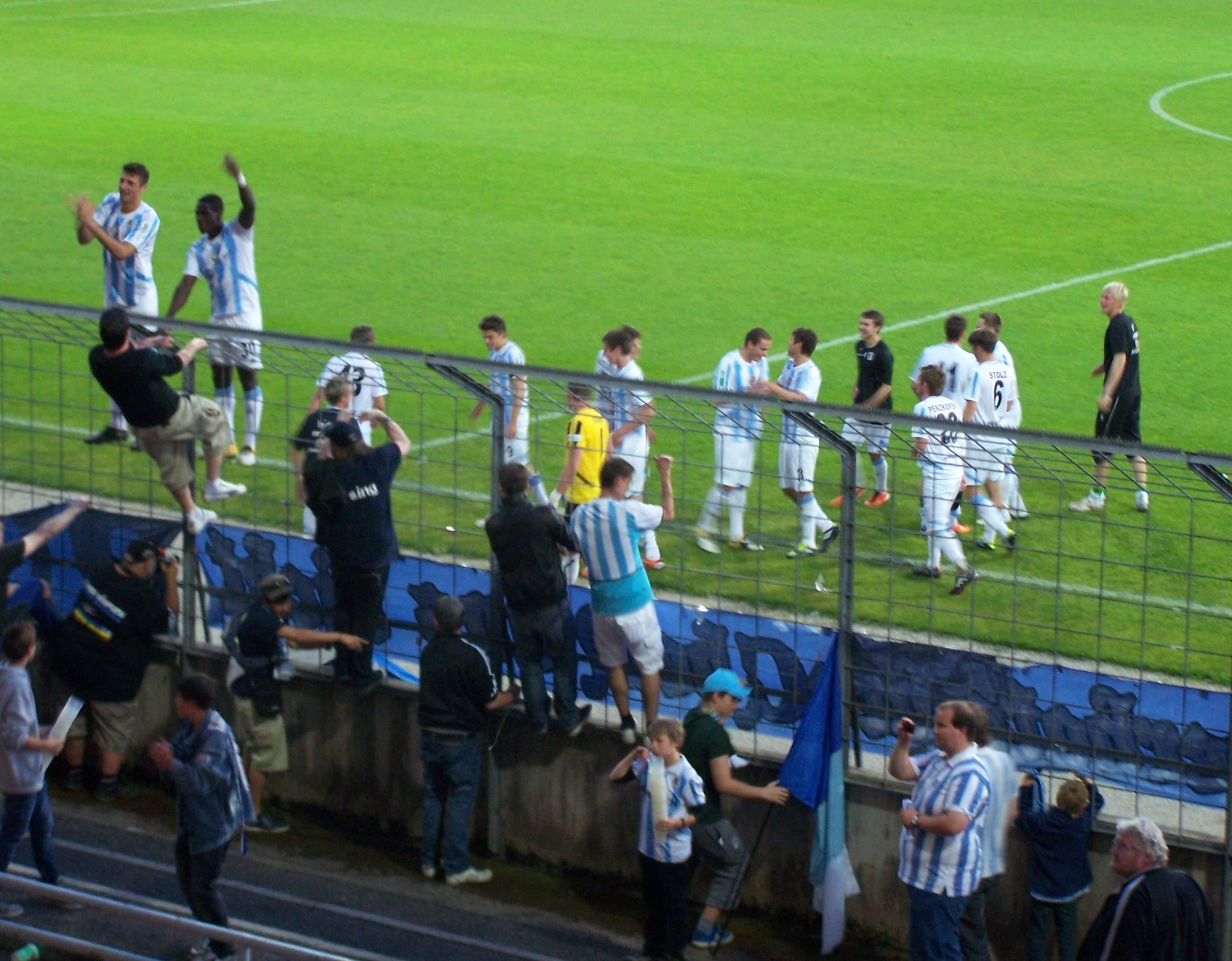 1860 München U23 after a match